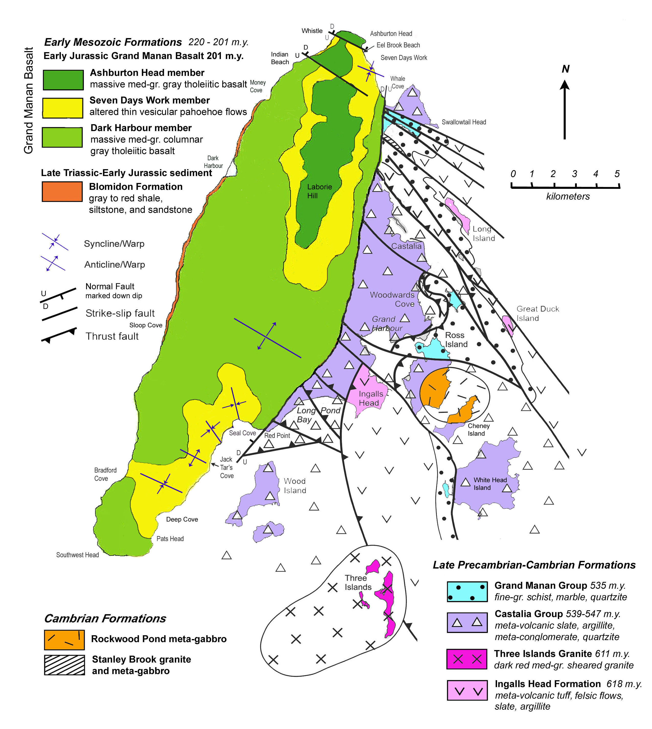 summary sketch map of the geology of Grand Manan, New brunswick, Canada